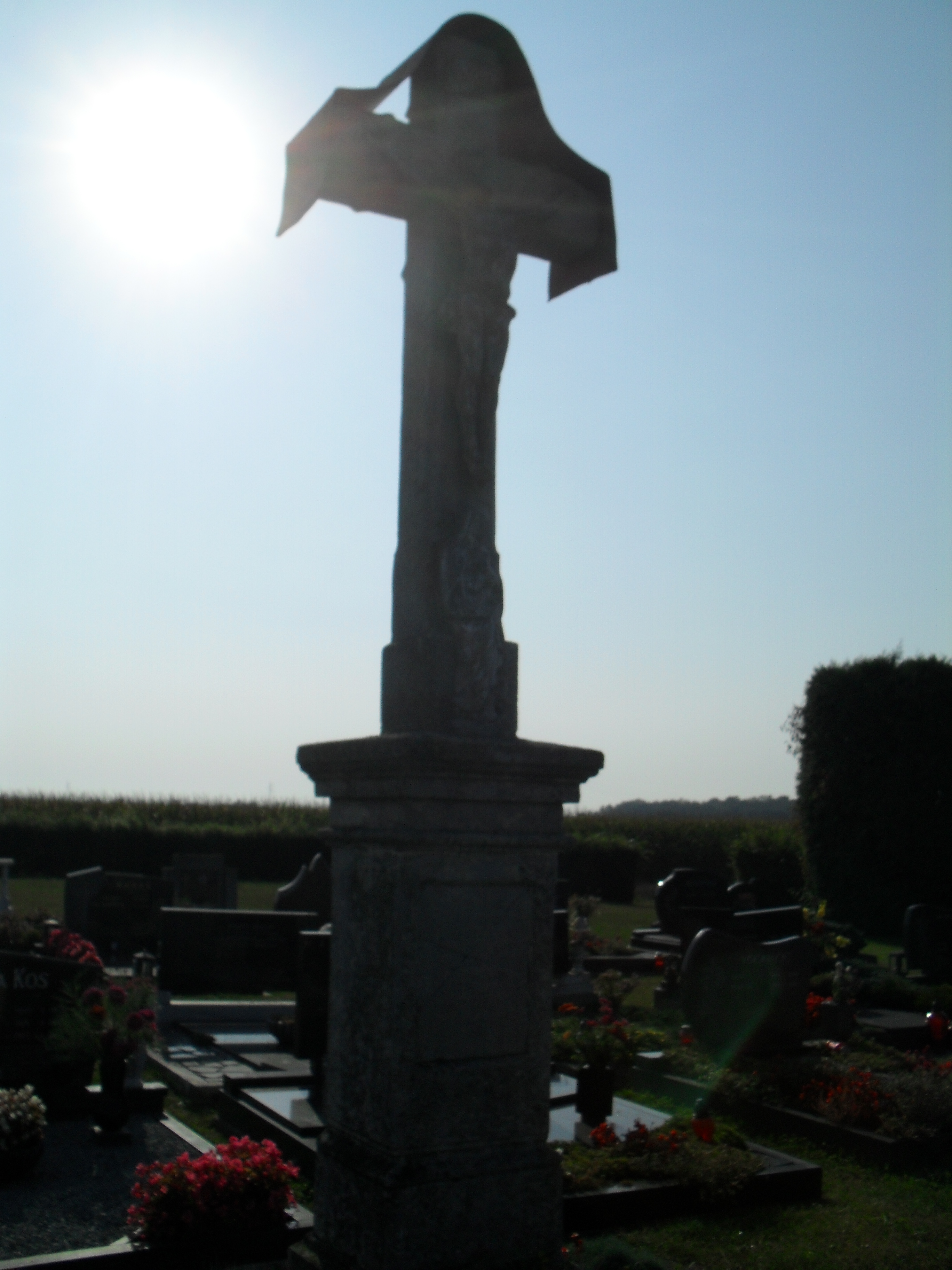 Cross in the cemetery Kupšinci (in prekmurian language/prekmurščina: Küpšinci) with prekmurian inscription (1)